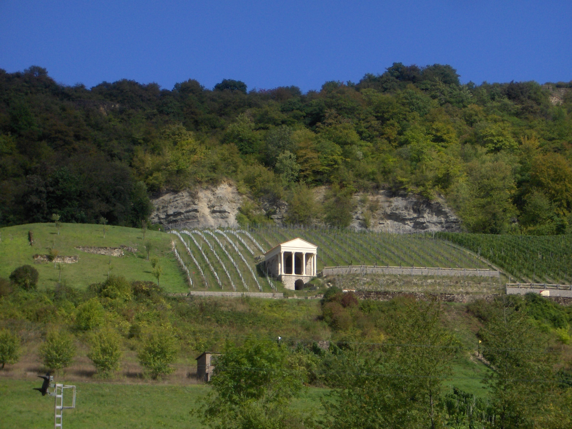 The "Grutenhäuschen", a Roman tomb at Igel, Germany. It was originally bulit in the 3rd of 4th century AD. The lower part was repaired in 1962, the upper part reconstructed in 2001.